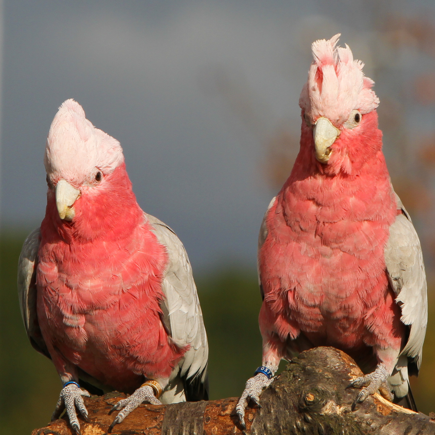 Galah Cockatoo's at Diergaarde Blijdorp, Rotterdam, Netherlands.